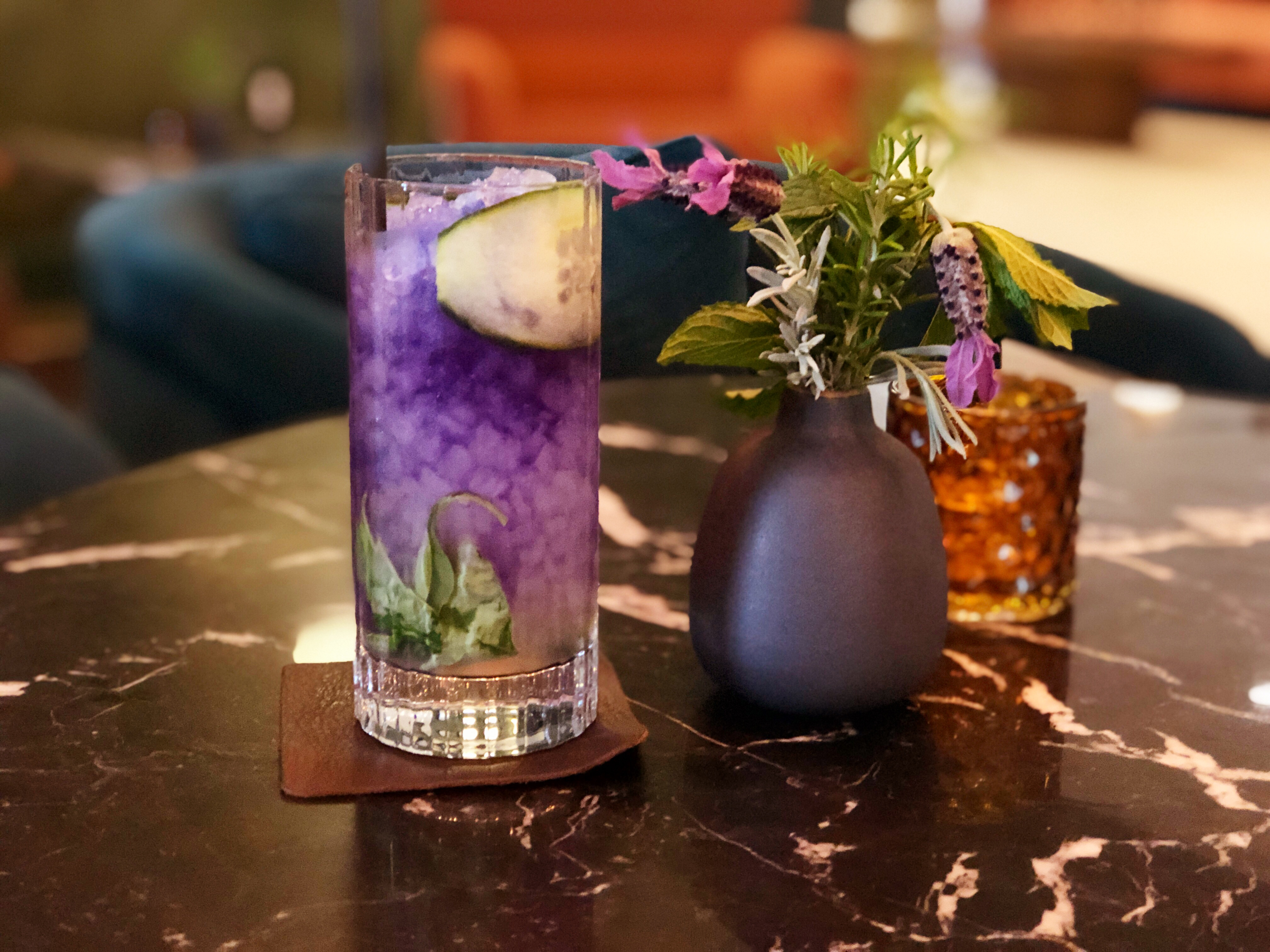 The Forager cocktail (Griffo Gin, Italicus Rosolio, Butterfly Pea Tea, Cucumber, Basil, Lime, Fresh Herbs) at The Bar at MacArthur Place in Sonoma, California